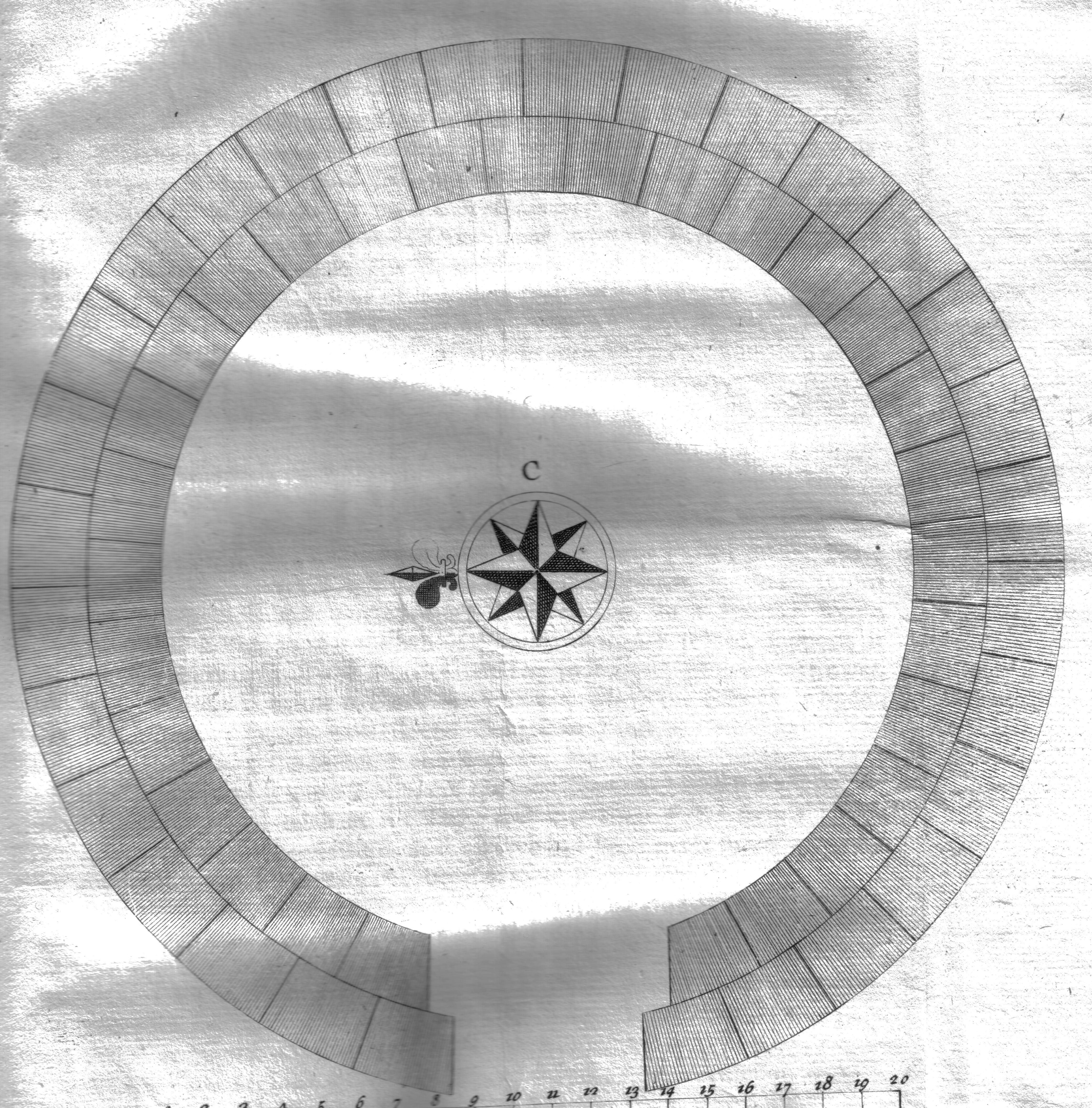 Arthur's O'on, Stenhousemuir, Scotland. Interior ground floor plan